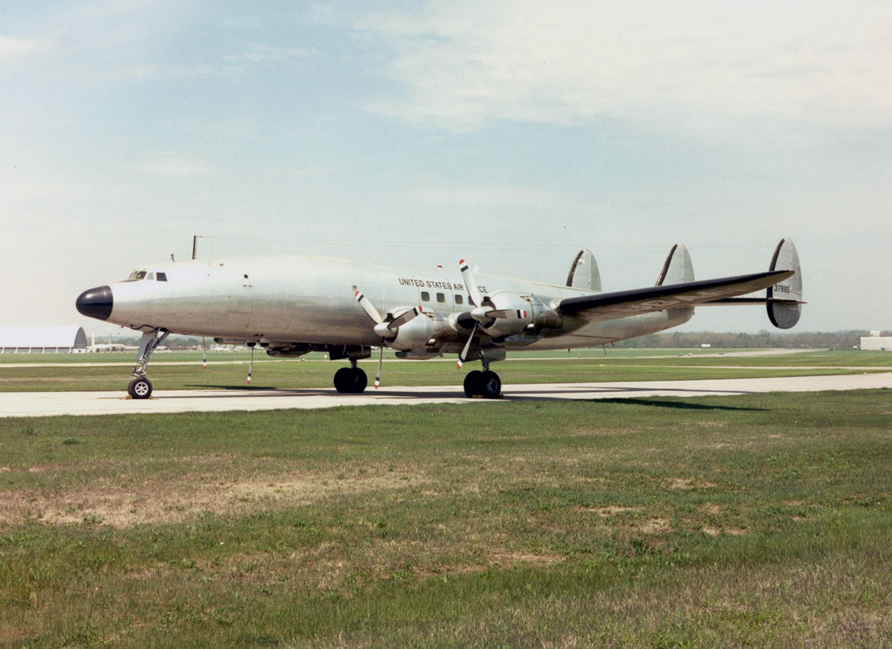 The U.S. Air Force Lockheed VC-121E Super Constellation (53-7885, c/n 4151) at the National Museum of the United States Air Force. The aircraft had been ordered by the U.S. Navy as the R7V-1 BuNo 131650 and was diverted during construction to conversion as a presidential aircraft. It was operated throughout the Eisenhower administration as "Colombine III" and replaced in October 1962 by a Boeing VC-137C. The aircraft is today on display at National Museum of the USAF.